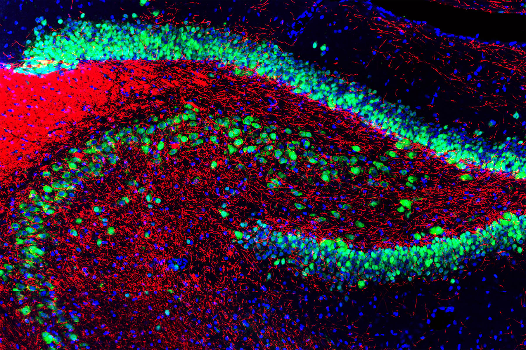 This is a section of adult rat hippocampus stained with antibody to the neuronal nucleus and perikaryal antibody NeuN (a.k.a. Fox3) in green and antibody to myelin basic protein (MBP) in red. The MBP reveals neuronal axons while the NeuN antibody reveals neurons but not non neuronal cells. The fluorescent blue DNA stain DAPI was used to stain nuclei on neurons and non-neuronal cells. Antibodies and imaging courtesy of EnCor Biotechnology Inc.